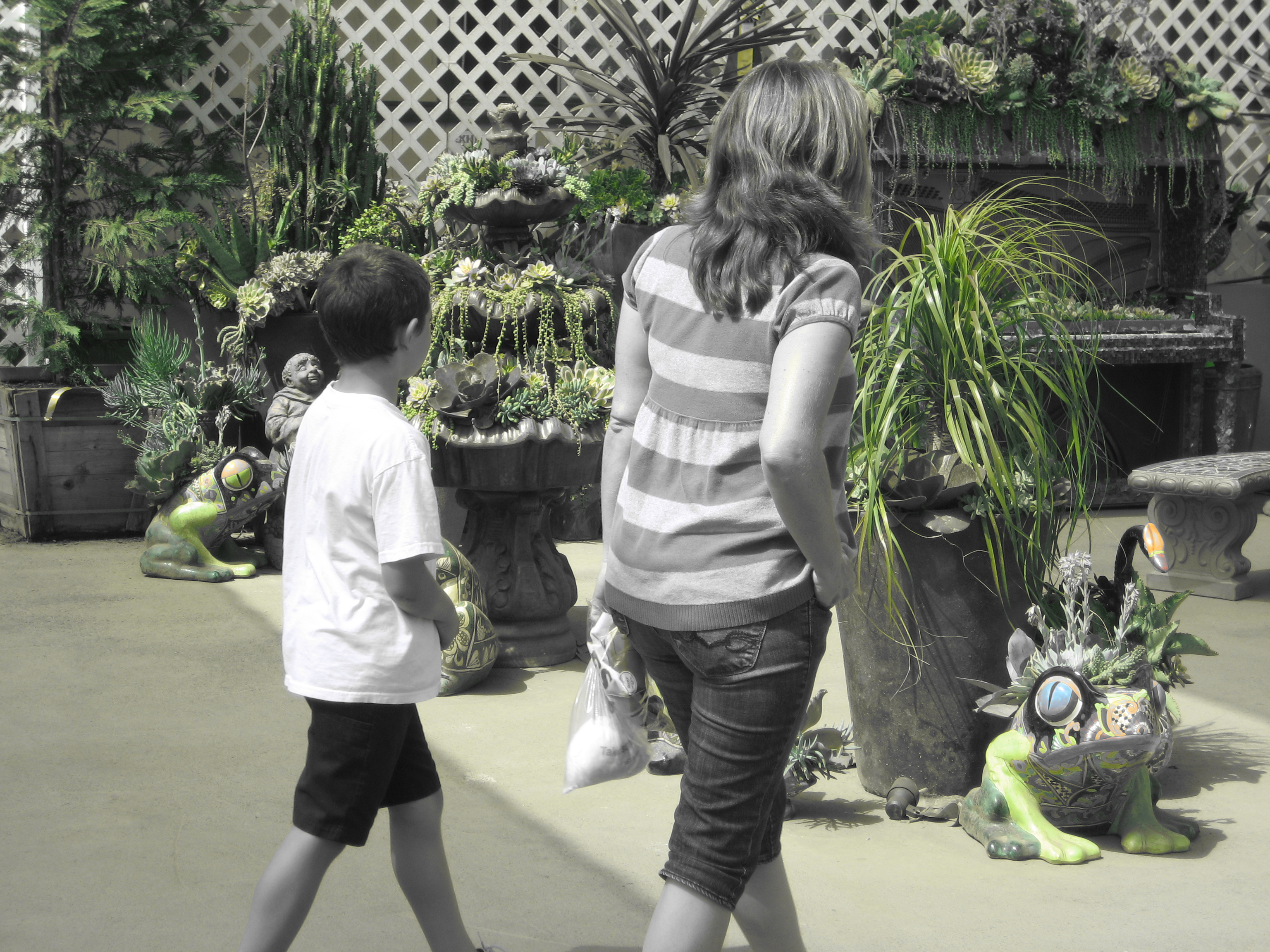 A view of the San Diego County Fair at Del Mar, People stroll through the plant exhibit. Photograph by Patty Mooney, Crystal Pyramid Productions, San Diego, California.